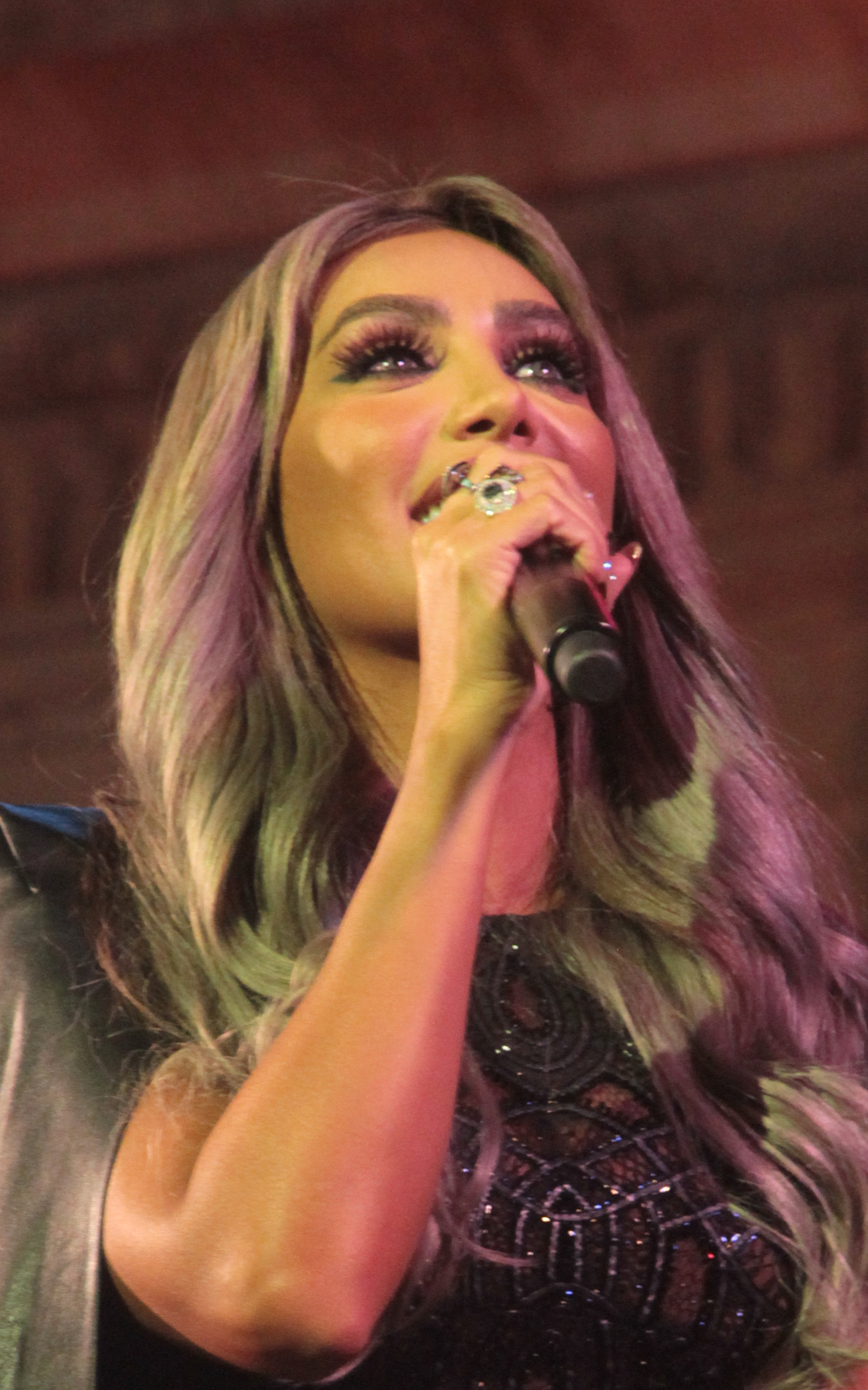 Maya Diab, Jerash Festival, 31 July 2015 (04)